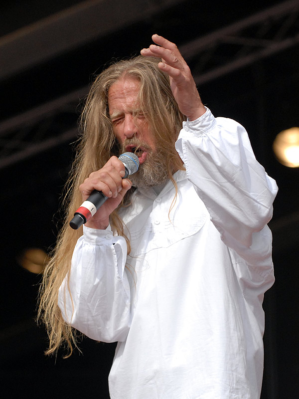 Øyvind Elgenes at the StatoilHydro free concert in Stavanger 2008.